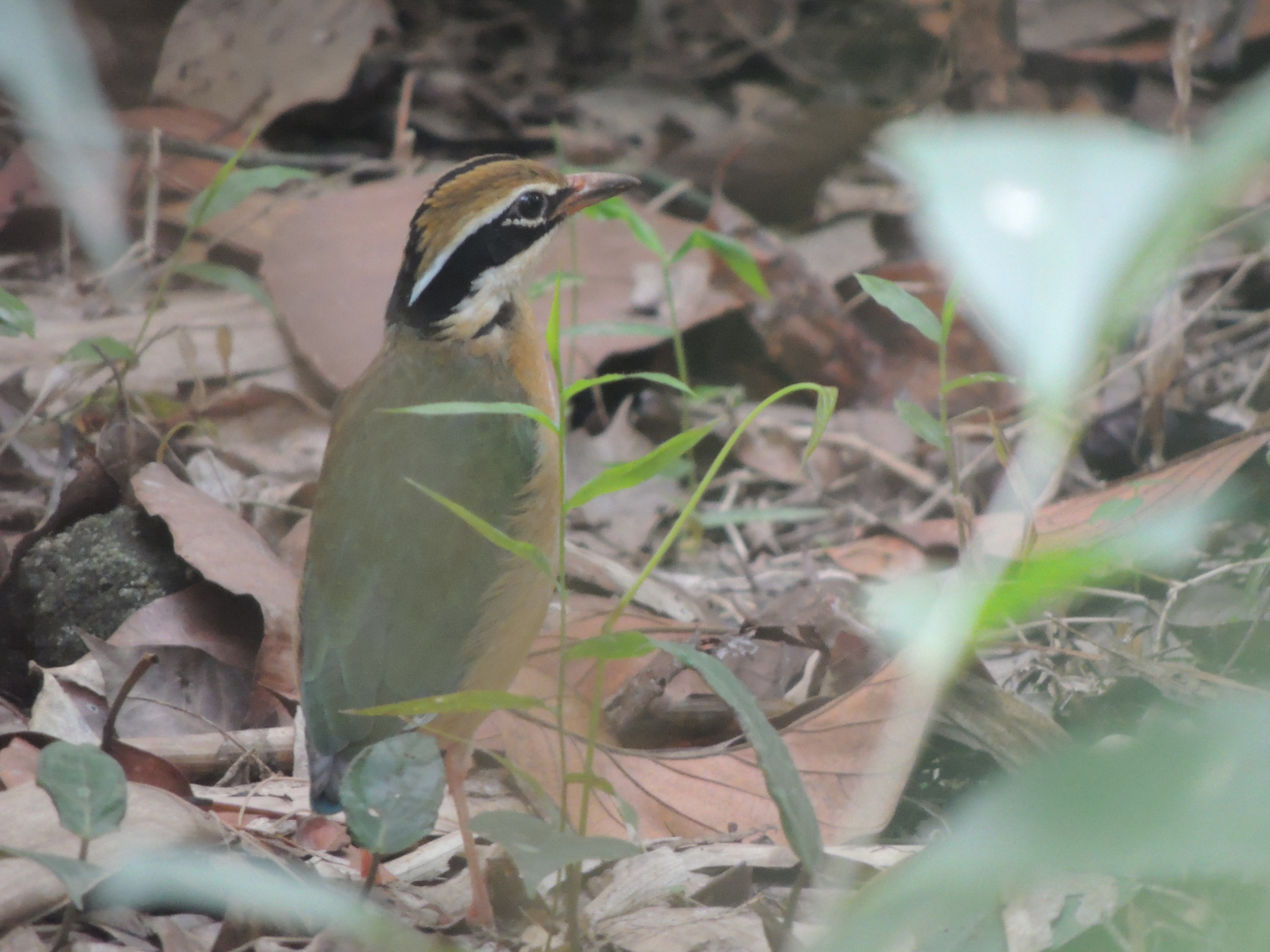 Indian Pitta observed at Kumbanad, Pathanamthitta Dist. Kerala